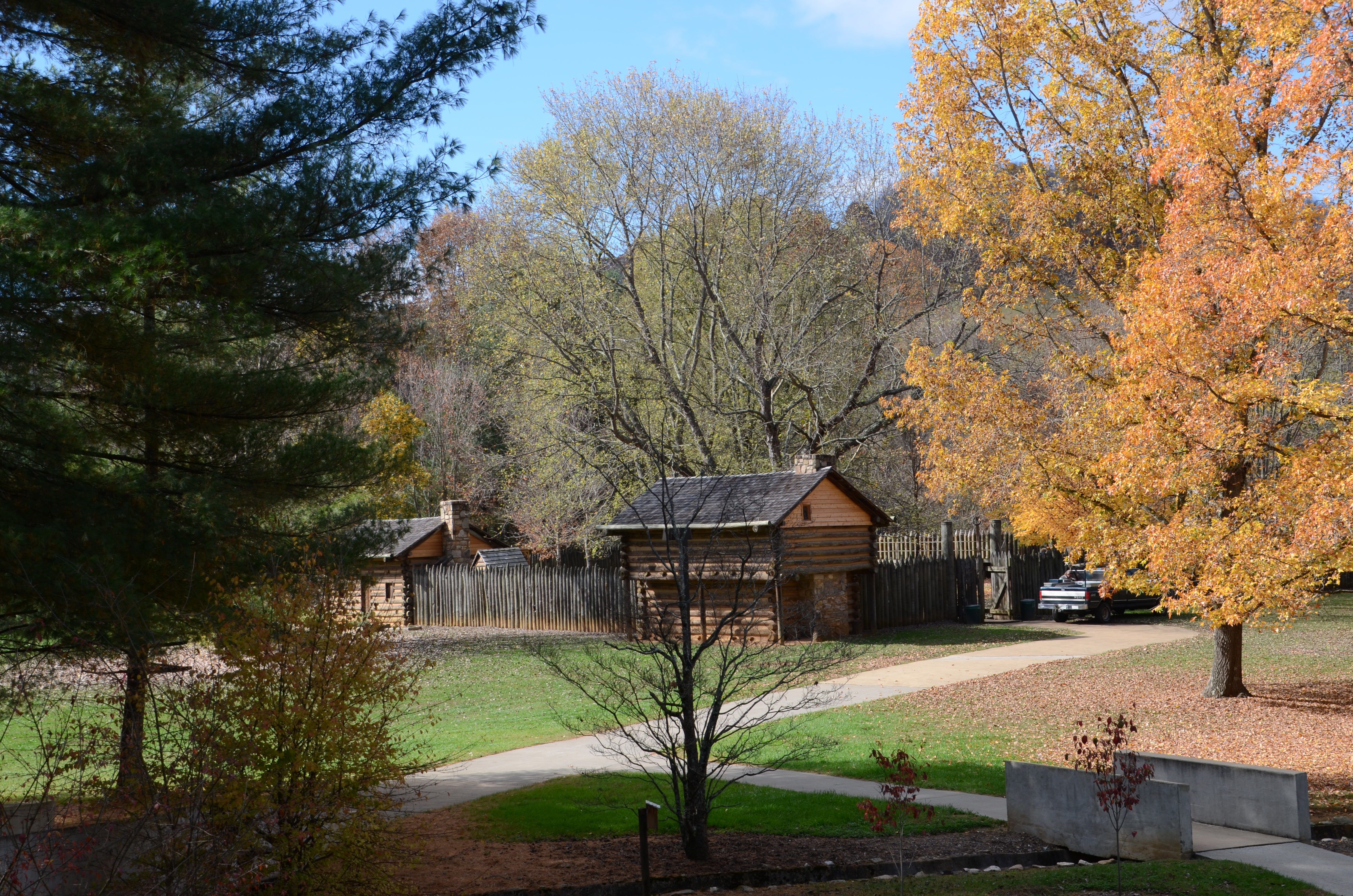 Reconstruction of Fort Watauga in Sycamore Shoals State Historic Park